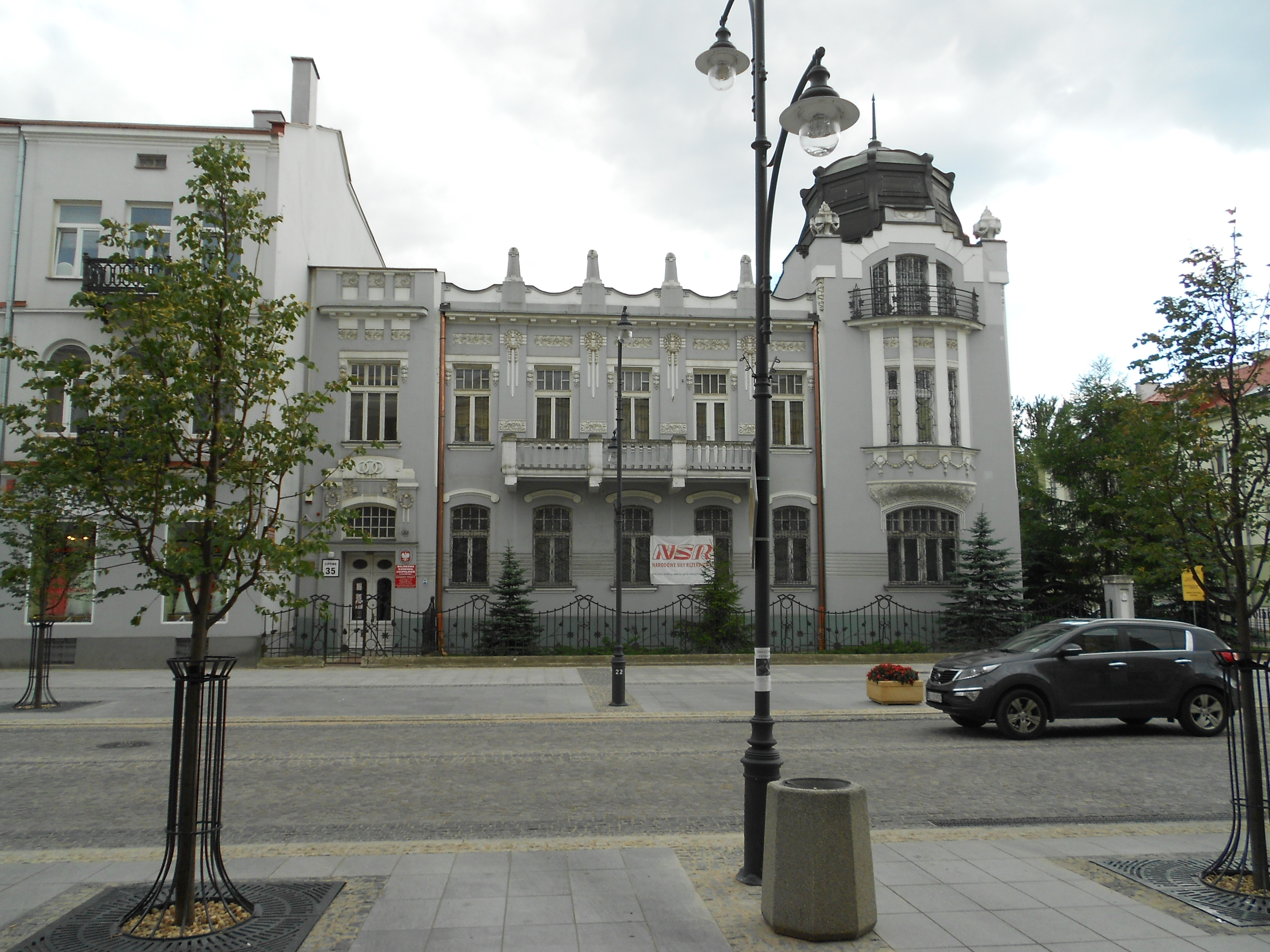 Nowik's Palace in Białystok at Lipowa 35 street, currently building of Military Draft Office